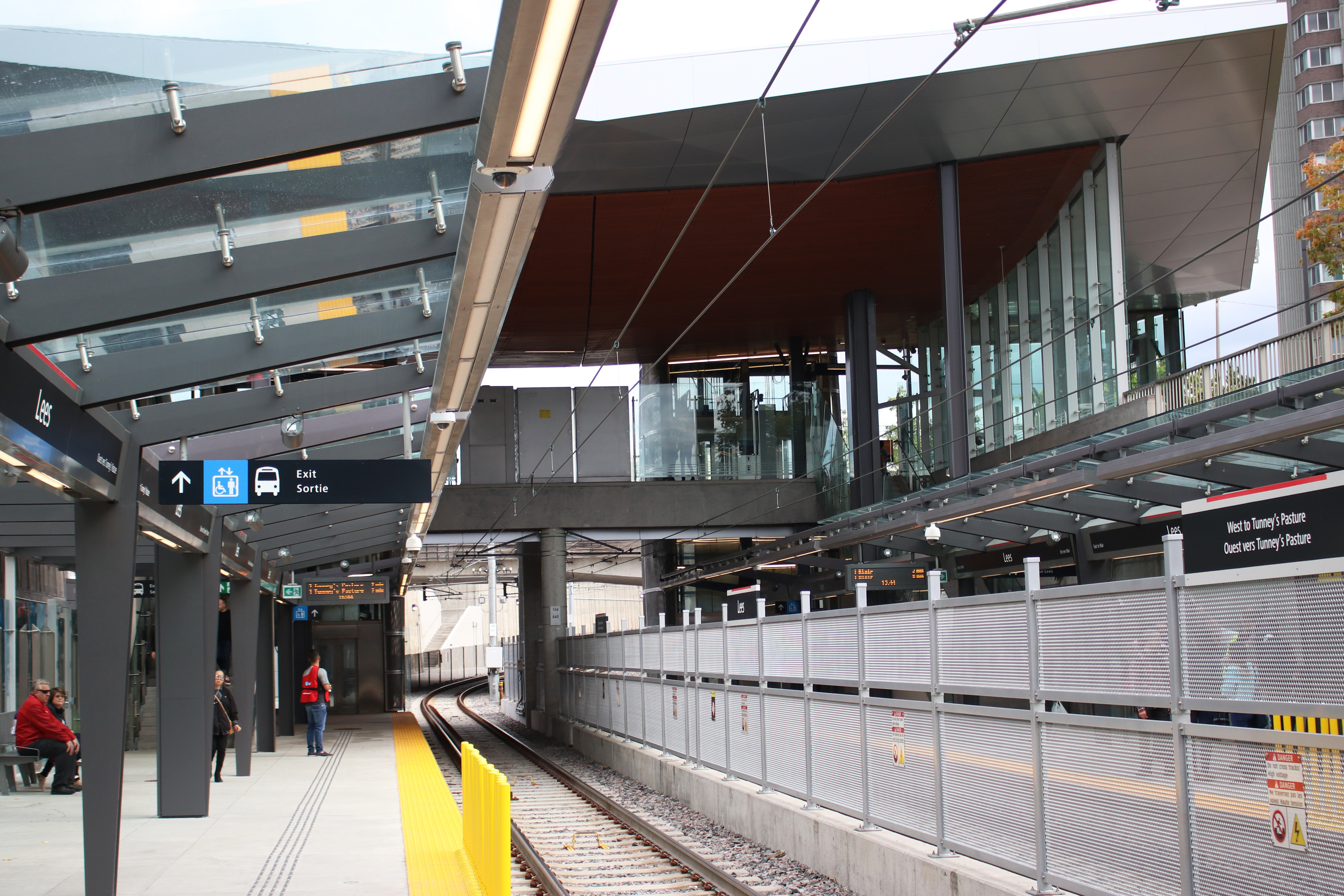 Platform at Lees Station, Ottawa